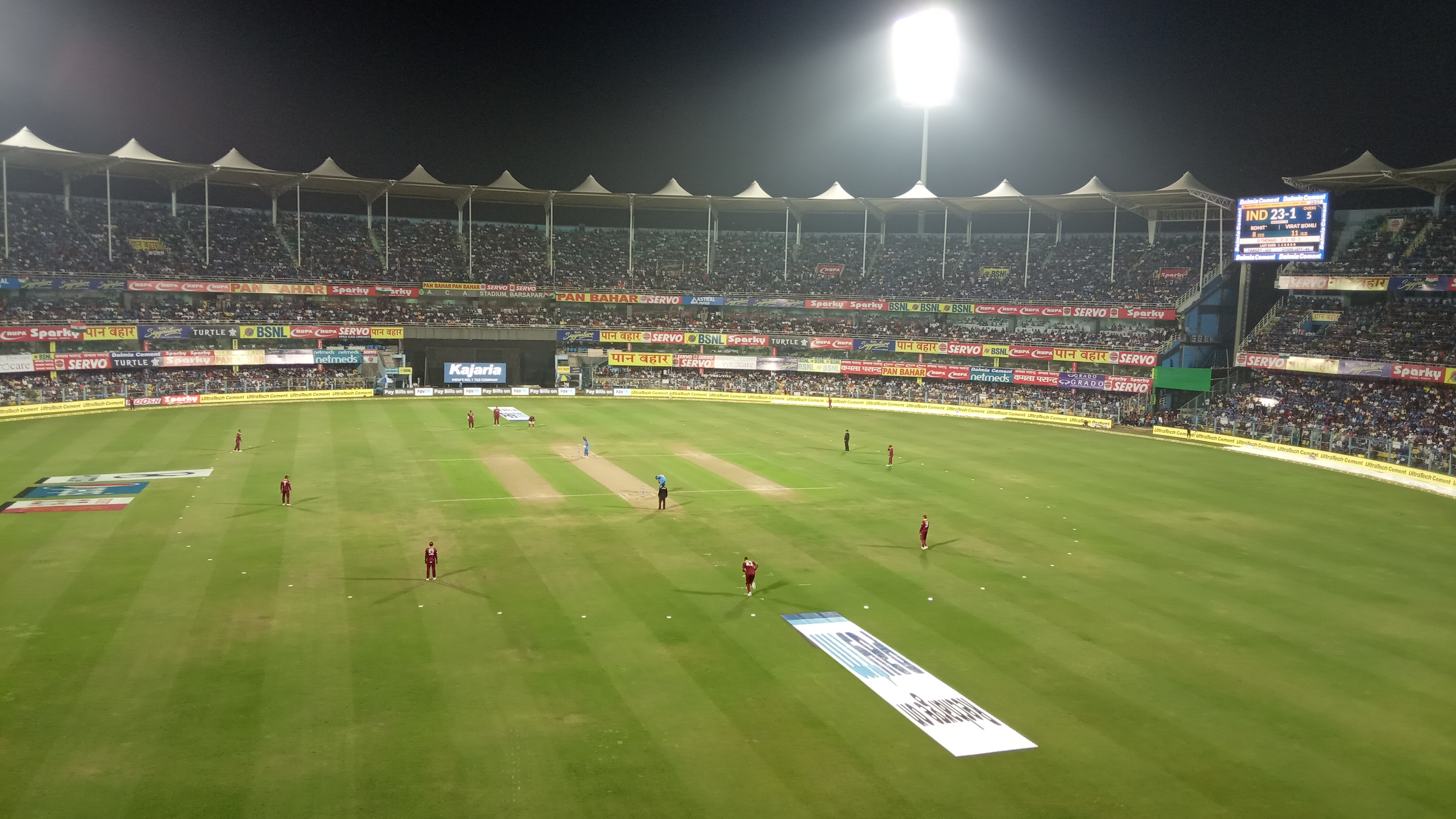 Barsapara Cricket Stadium match under floodlights